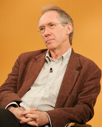 Ian McEwan, British author